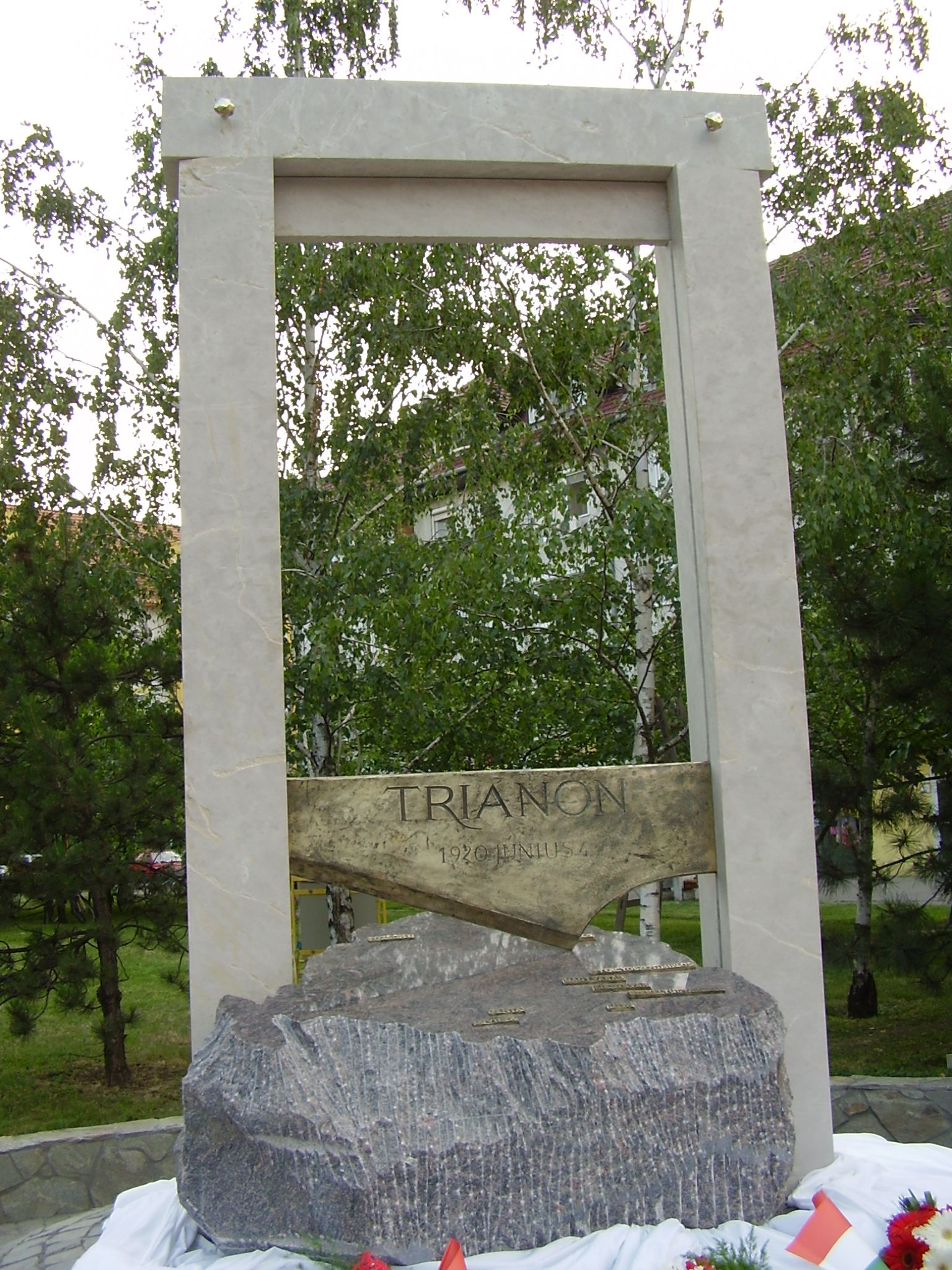 The Trianon-statue in Békéscsaba, Hungary (bigger version)